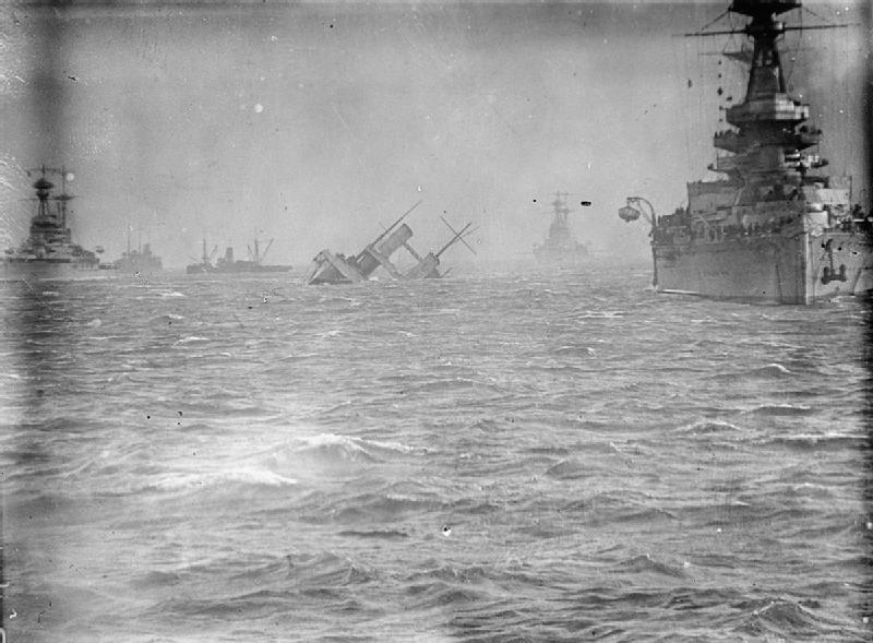 British aircraft carrier HMS CAMPANIA sinking after colliding with HMS Royal Oak at Rosyth.